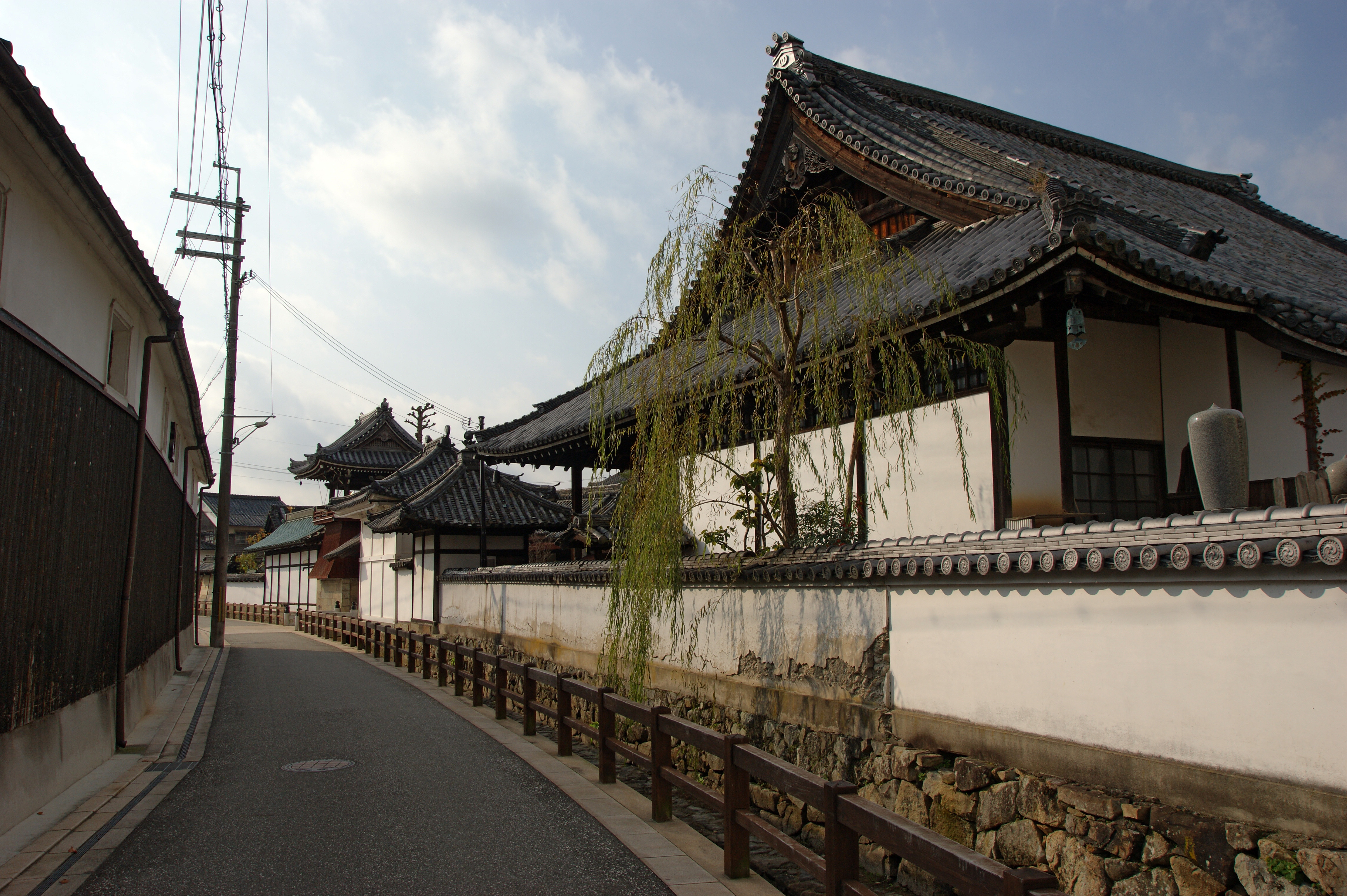 Nyoraiji (bourg in Tatsuno Castle) in Tatsuno, Hyogo prefecture, Japan